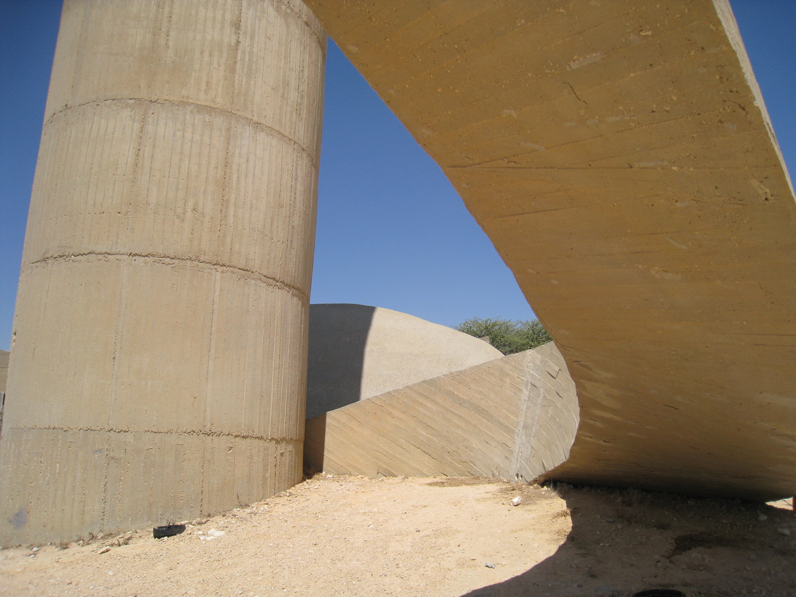 Monument to the Negev Brigade in the 1948 War of Independence, outside Beersheba, Israel.